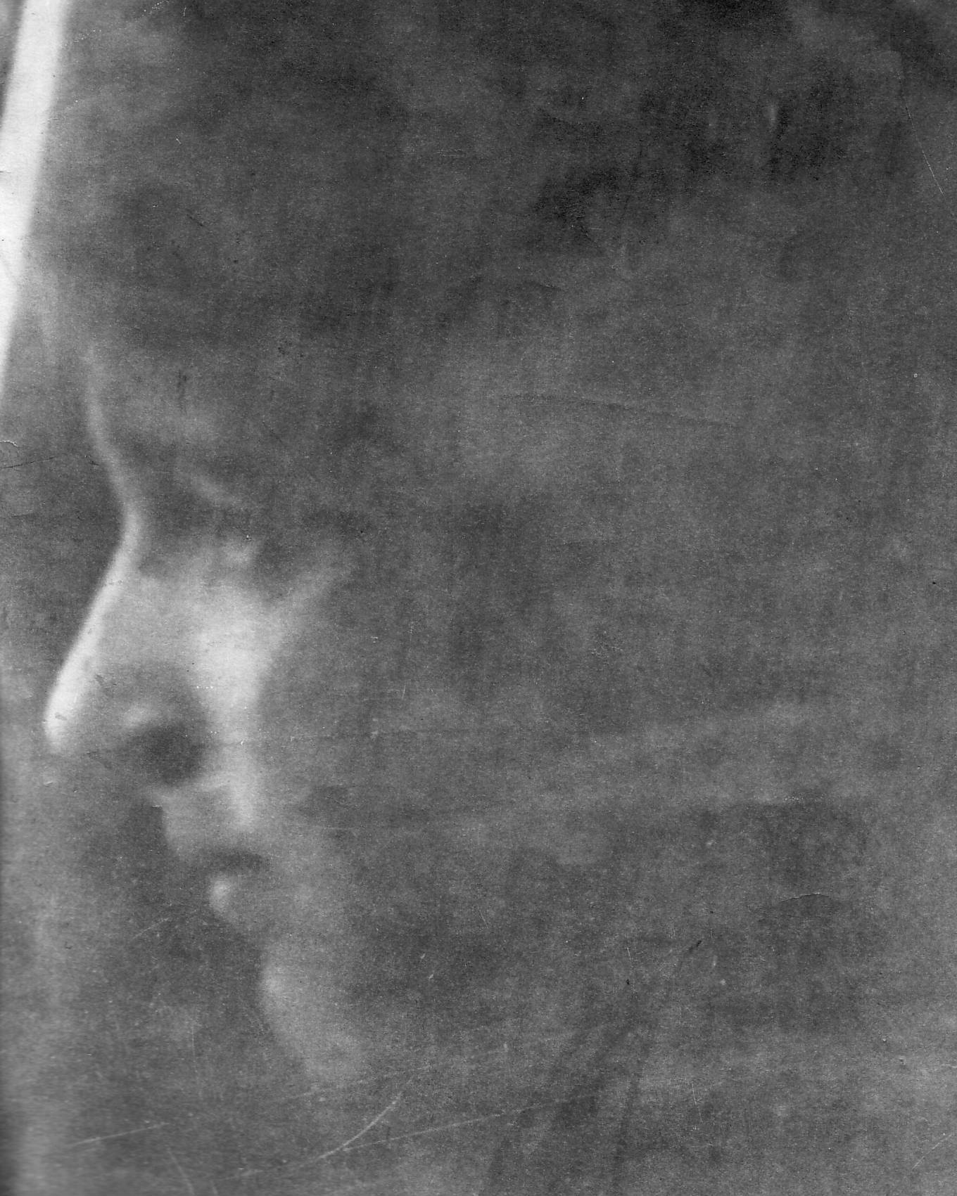 Portrait of María Zambrano (1904-1991). Photographic archive from the Fundación María ZAMBRANO, Velez Malaga, where not listed or mentioned is the author of the photograph.